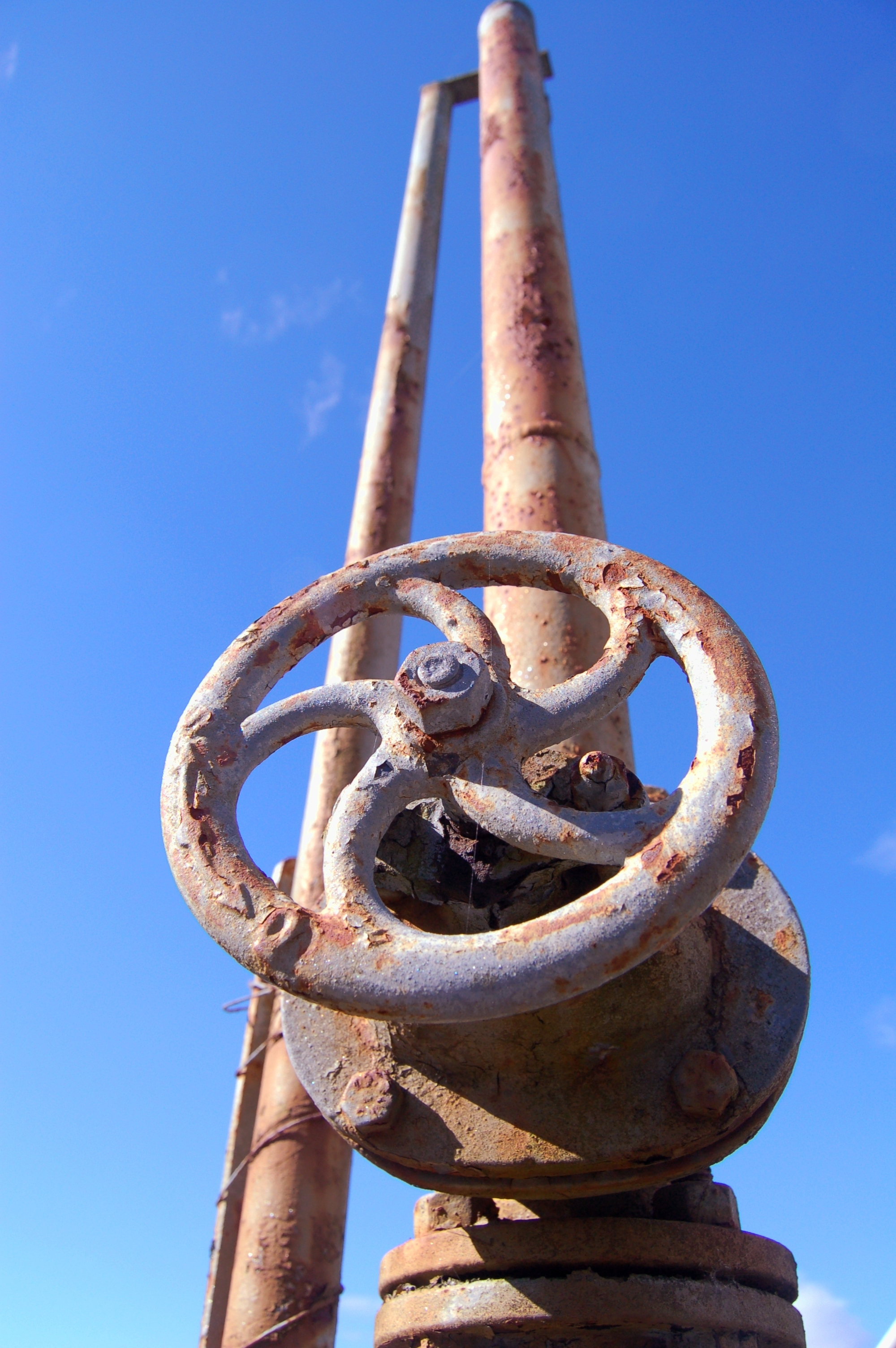 Rusty valve.